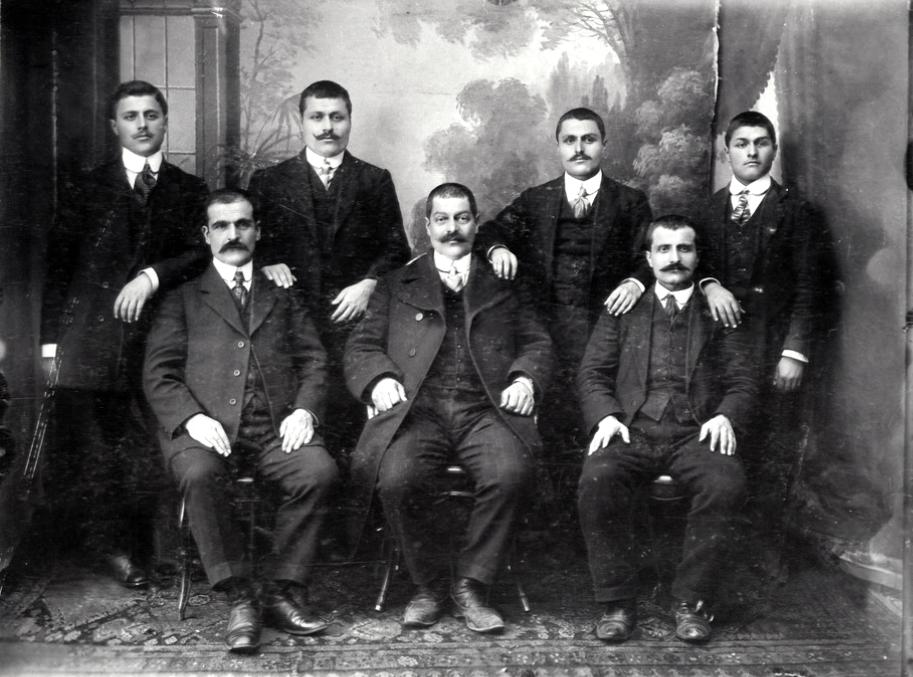 Pontic Greeks of Georgia, Kostas Konstantinidis from Sourmena: seated from left: Panagiotis, Savvas and John, standing from left: Jordan, Dimitris Anestis and Theodore, in Batumi, Georgia